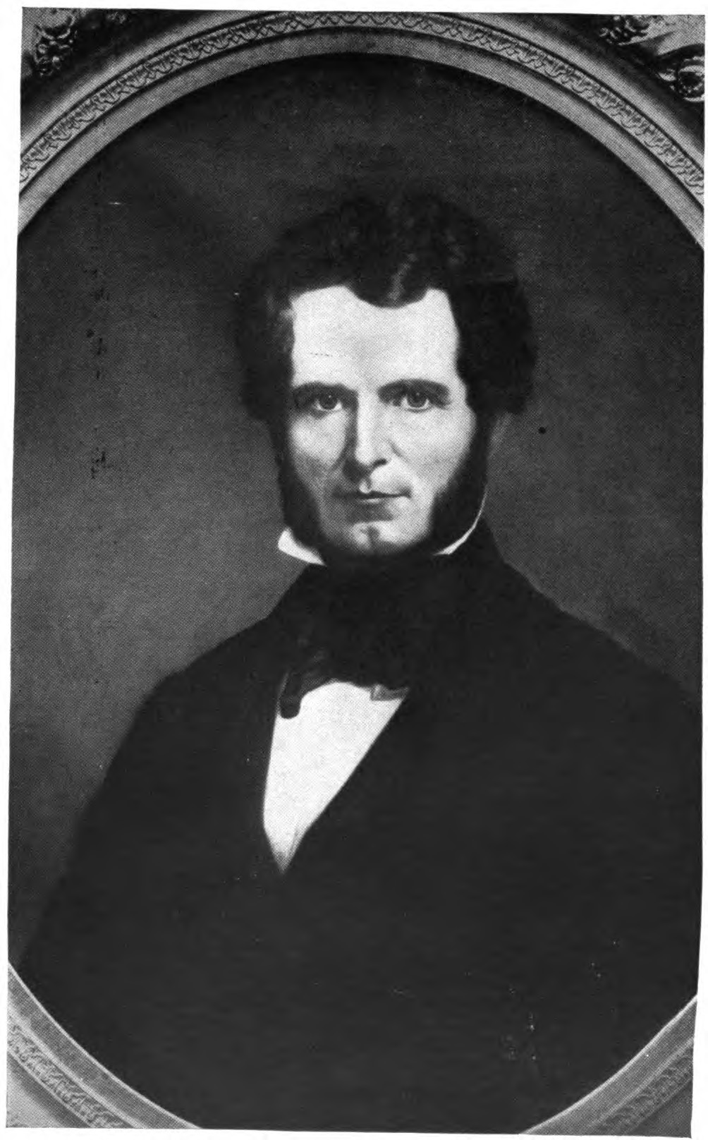 Scan of a portrait of a white male in early 19th-century formal American clothing